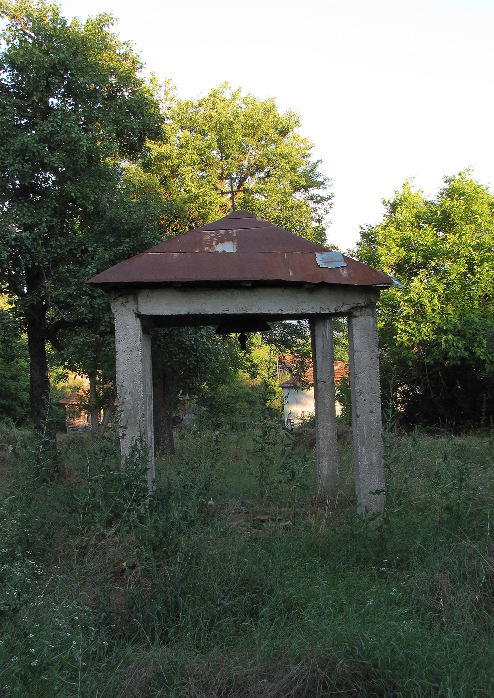 Belfry of the church in Osmakova (city of Pirot).